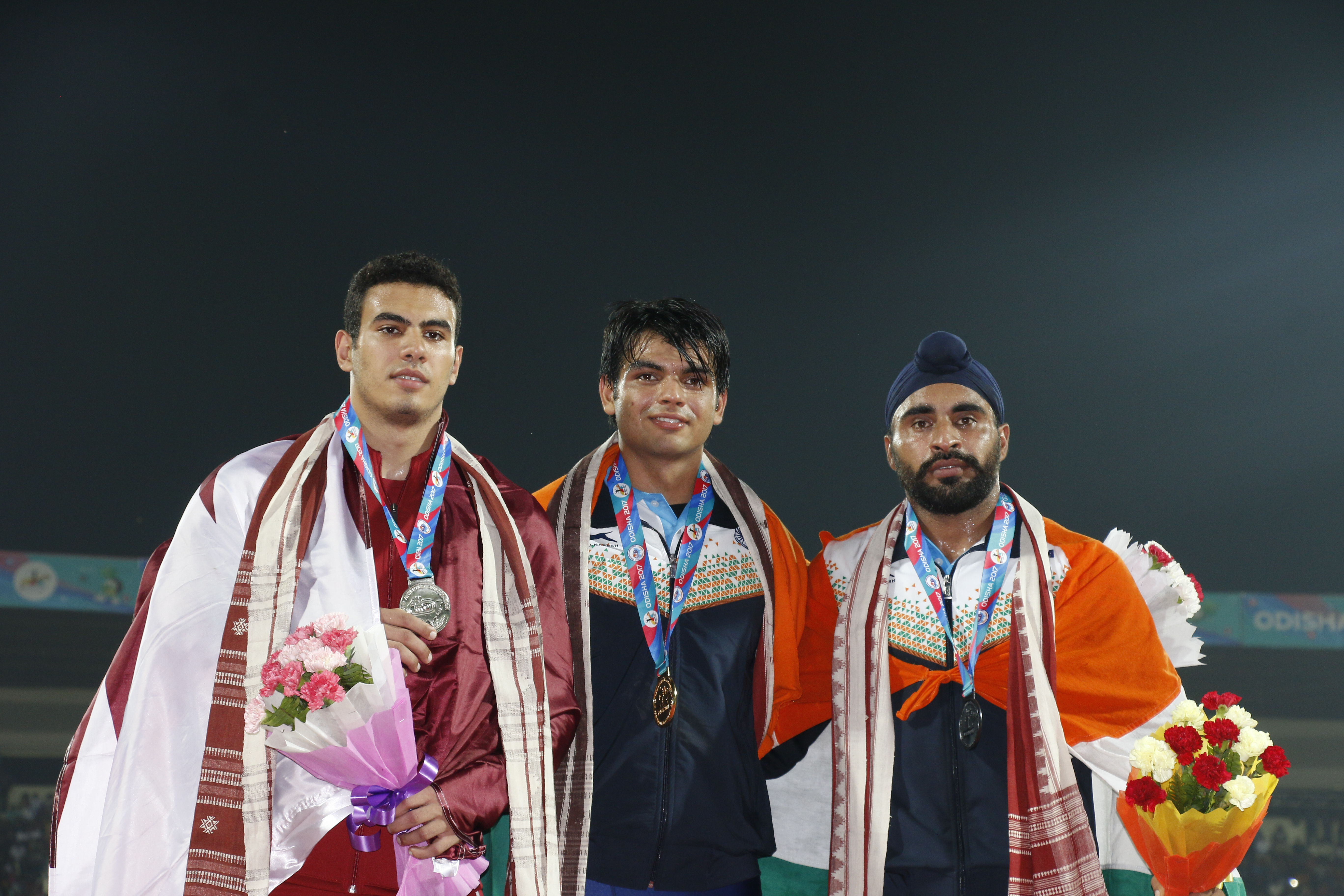 Athletes during 22nd Asian Athletics Championships in Bhubaneswar.